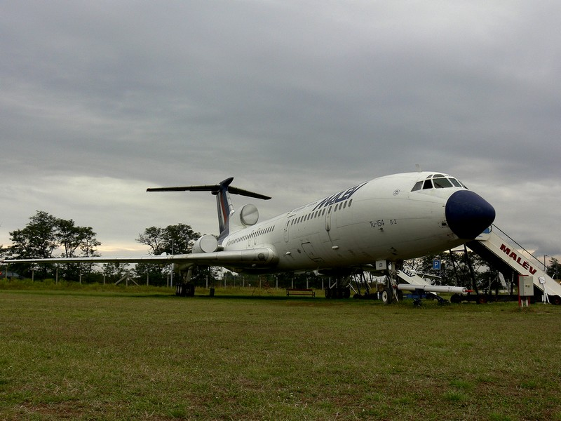 Tupolev Tu-154 B2 Malév Hungarian Airlines at Ferihegy Aircraft Memorial Park